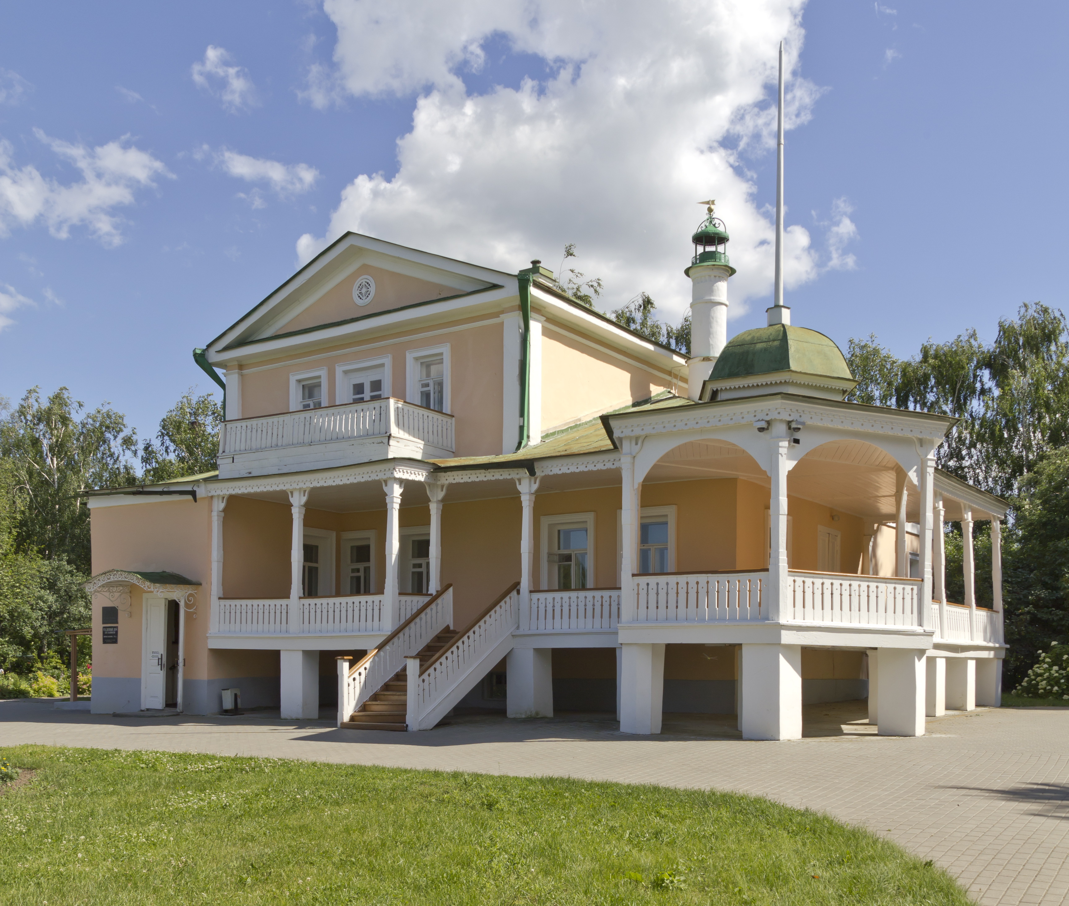 Former manor of L.I.Kashina in Konstantinovo village, Ryazan Oblast, Russia